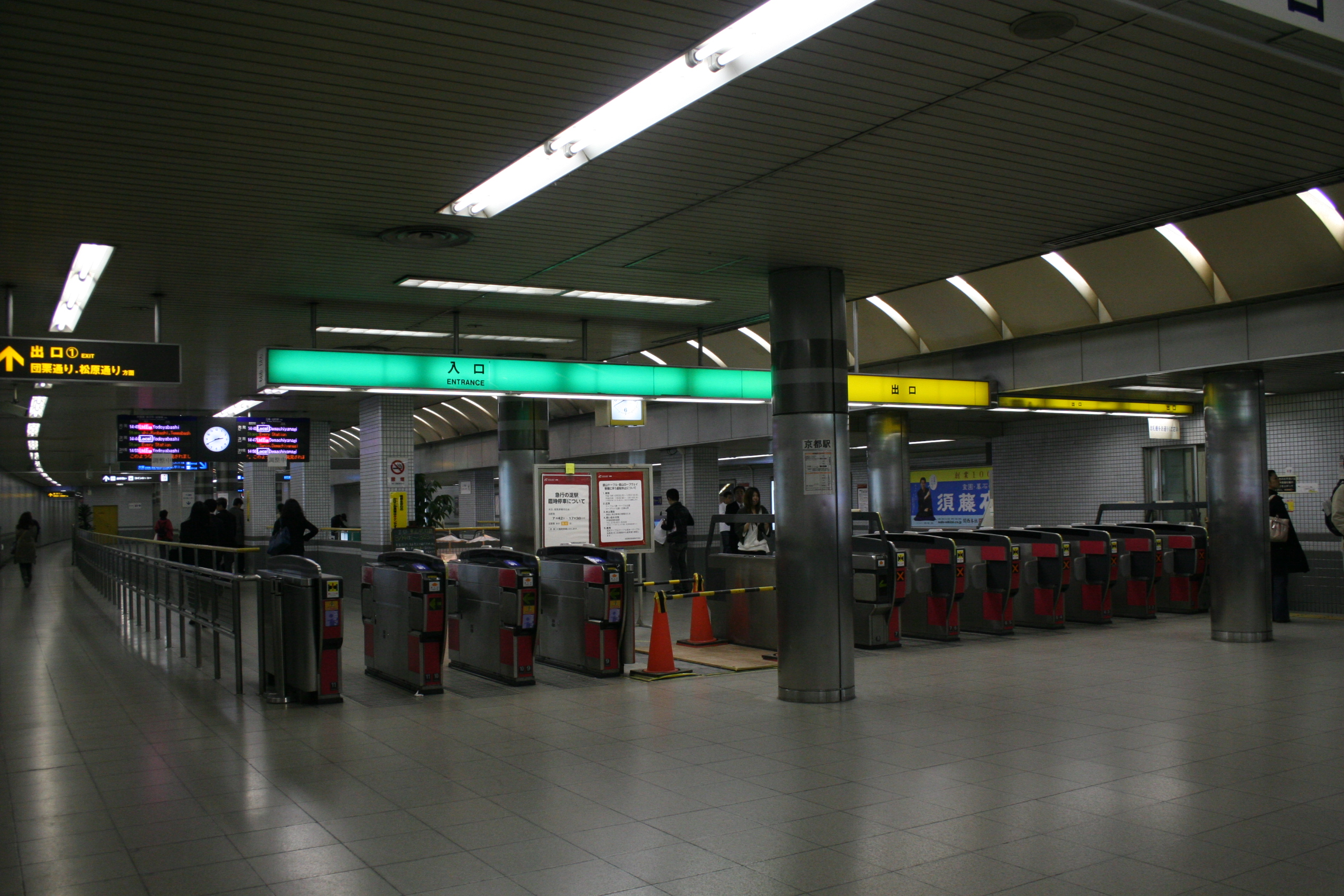 South ticket gate of Shijo Station on the Keihan Main Line, Higashiyama-ku, Kyoto, Japan